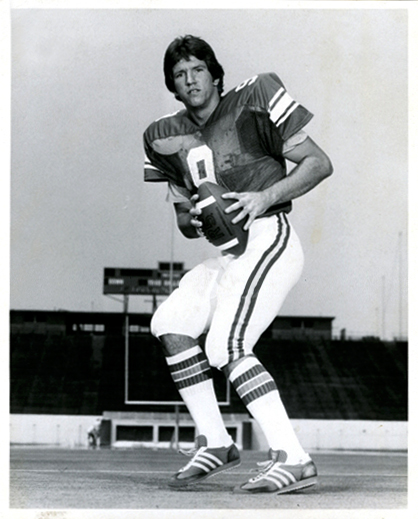 Former Rice Owls and Minnesota Vikings Tommy Kramer